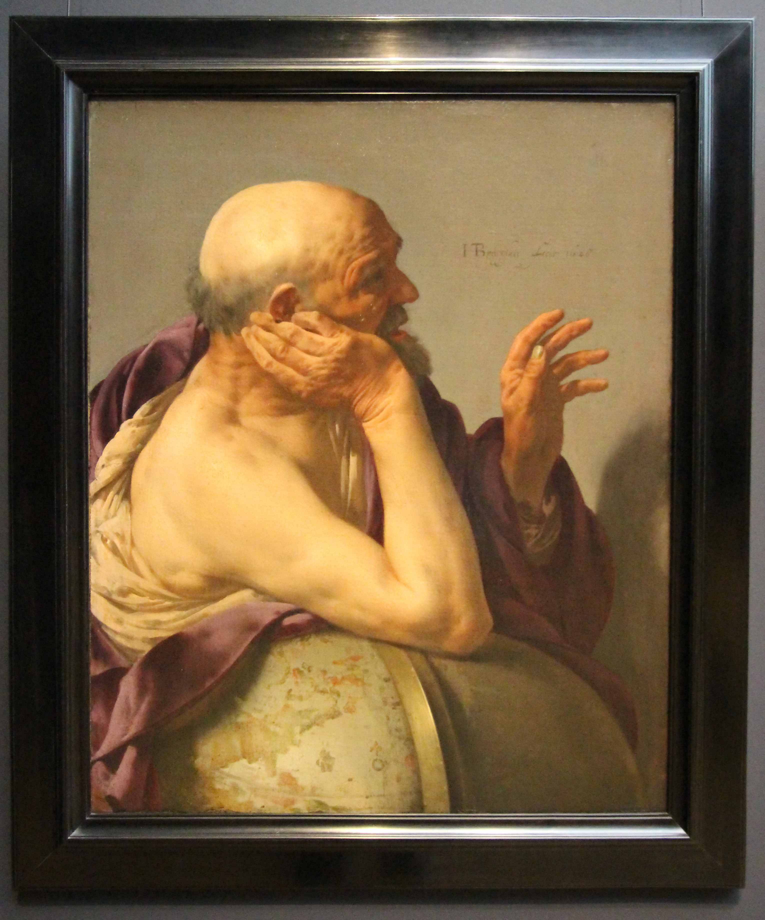 Heraclitus, talking and gesturing while he is leaning on a globe with his right arm. Pendant of File:Hendrik ter Brugghen - Democritus.jpg.